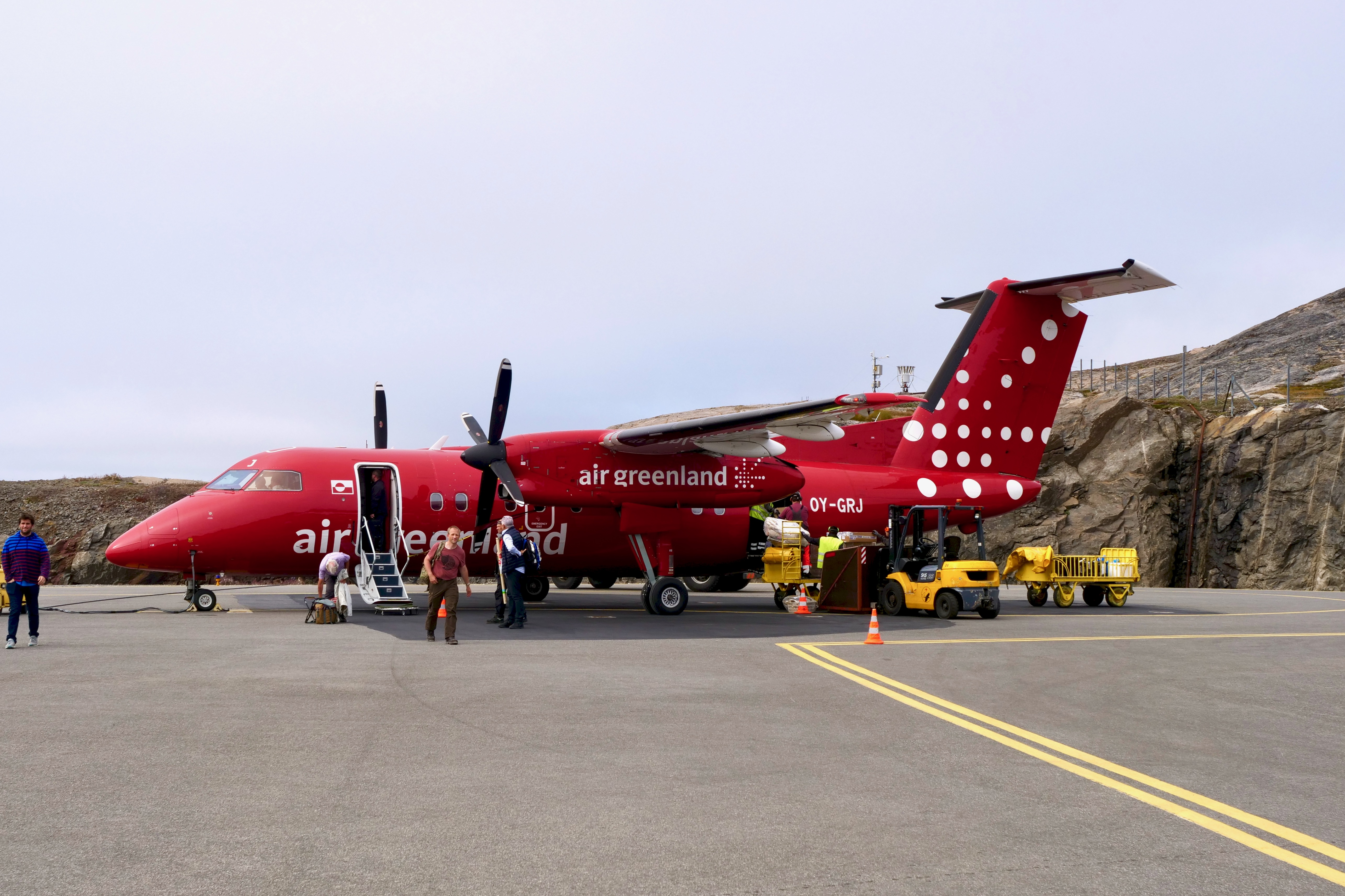 Air Greenland Dash 8-200 at Maniitsoq Airport in 2019.